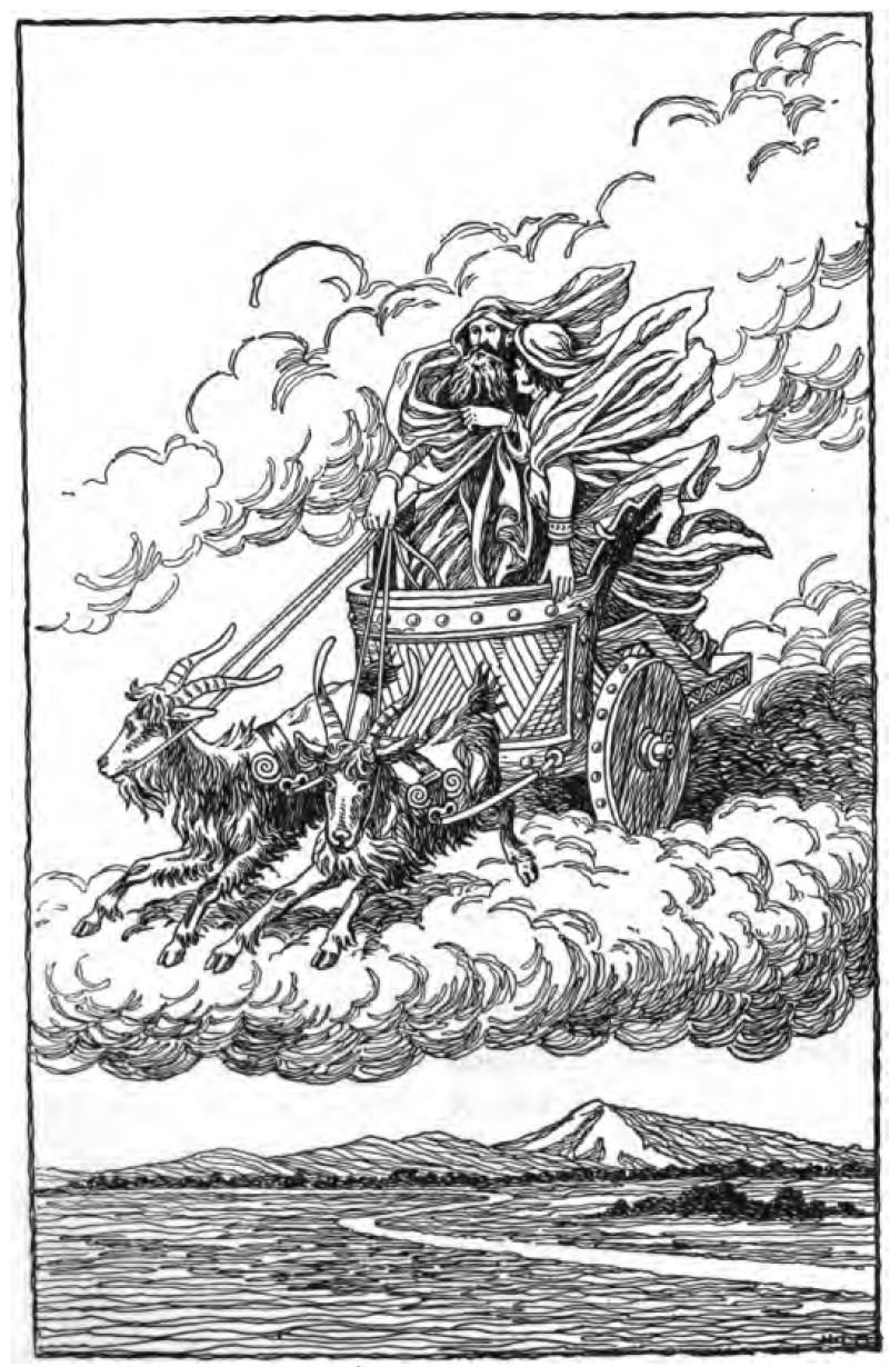 Captioned as "Thor and Loki in the Chariot".